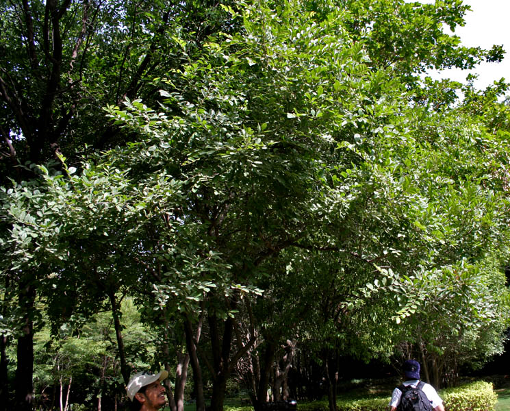 Diospyros chloroxylon in Hyderabad , India.